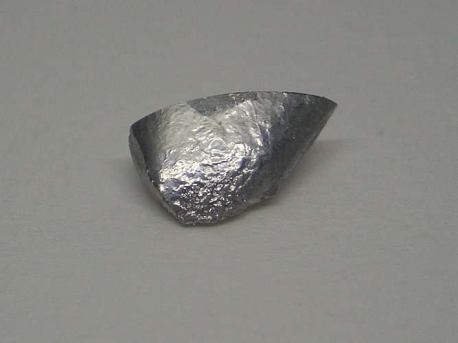 A chunk of iridium metal